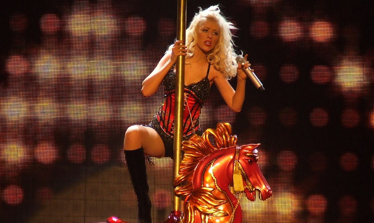 Christina Aguilera "Dirrty" Edit